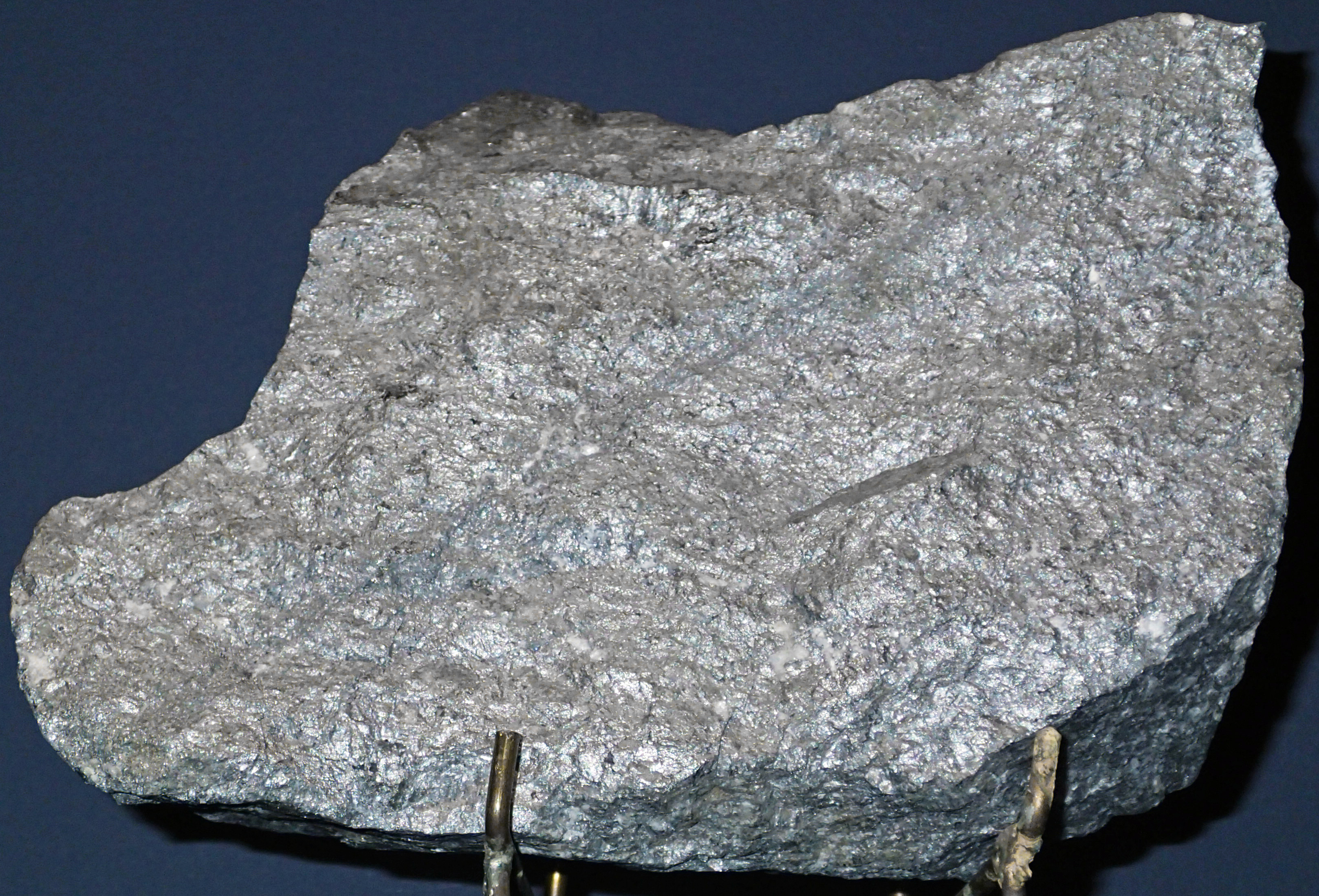 Cobaltite from Ontario, Canada. (DMNH 5847, Denver Museum of Nature & Science, Denver, Colorado, USA) A mineral is a naturally-occurring, solid, inorganic, crystalline substance having a fairly definite chemical composition and having fairly definite physical properties. At its simplest, a mineral is a naturally-occurring solid chemical. Currently, there are over 4900 named and described minerals - about 200 of them are common and about 20 of them are very common. Mineral classification is based on anion chemistry. Major categories of minerals are: elements, sulfides, oxides, halides, carbonates, sulfates, phosphates, and silicates. The sulfide minerals contain one or more sulfide anions (S-2). The sulfides are usually considered together with the arsenide minerals, the sulfarsenide minerals, and the telluride minerals. Many sulfides are economically significant, as they occur commonly in ores. The metals that combine with S-2 are mainly Fe, Cu, Ni, Ag, etc. Most sulfides have a metallic luster, are moderately soft, and are noticeably heavy for their size. These minerals will not form in the presence of free oxygen. Under an oxygen-rich atmosphere, sulfide minerals tend to chemically weather to various oxide and hydroxide minerals. Cobaltite is an important cobalt ore mineral having the formula (Co,Fe)AsS - cobalt iron arsenic sulfide. It's essentially arsenopyrite with cobalt. Cobaltite has a metallic luster, a bright silvery color, a dark gray streak, and is moderately hard (H = 5.5). It can form cubic and pyritohedral crystals (the same crystal forms as pyrite), but cobaltite has cleavage, unlike pyrite. It frequently occurs as finely granular masses mixed with other minerals (see below). Cobaltite occurs in some hydrothermal veins, and in some contact metamorphic rocks. Locality: mine in or near the town of Cobalt, Ontario, Canada Photo gallery of cobaltite